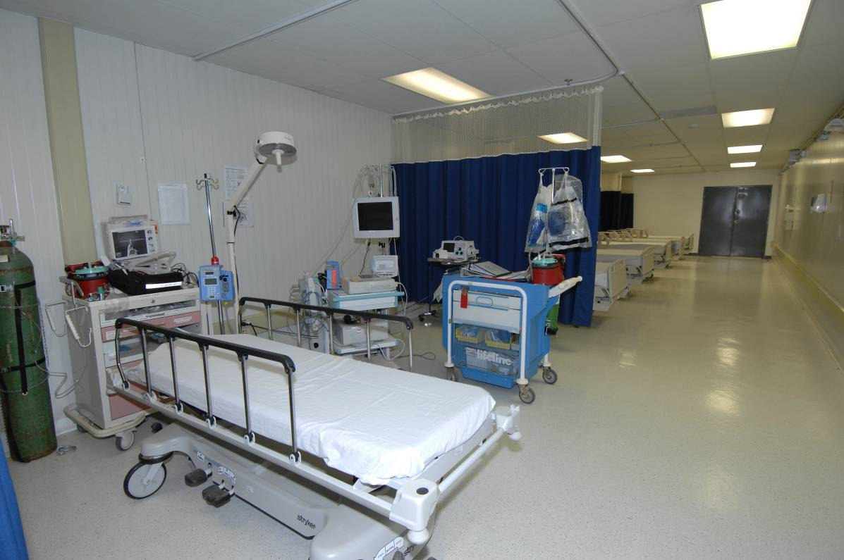 Guantanamo captive's hospital beds.